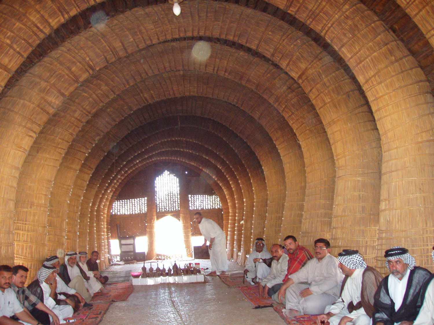 A mudhif, a traditional Marsh Arab guesthouse made entirely out of reeds. The Marsh Arab live a lifestyle that dates back 5,000 years. The US Army Corps of Engineers played an important role in advising the Iraqi Ministry of Water Resources, (MOWR) as they restored the Mesopotamian Marshes destroyed by Saddam Hussein after Desert Storm.